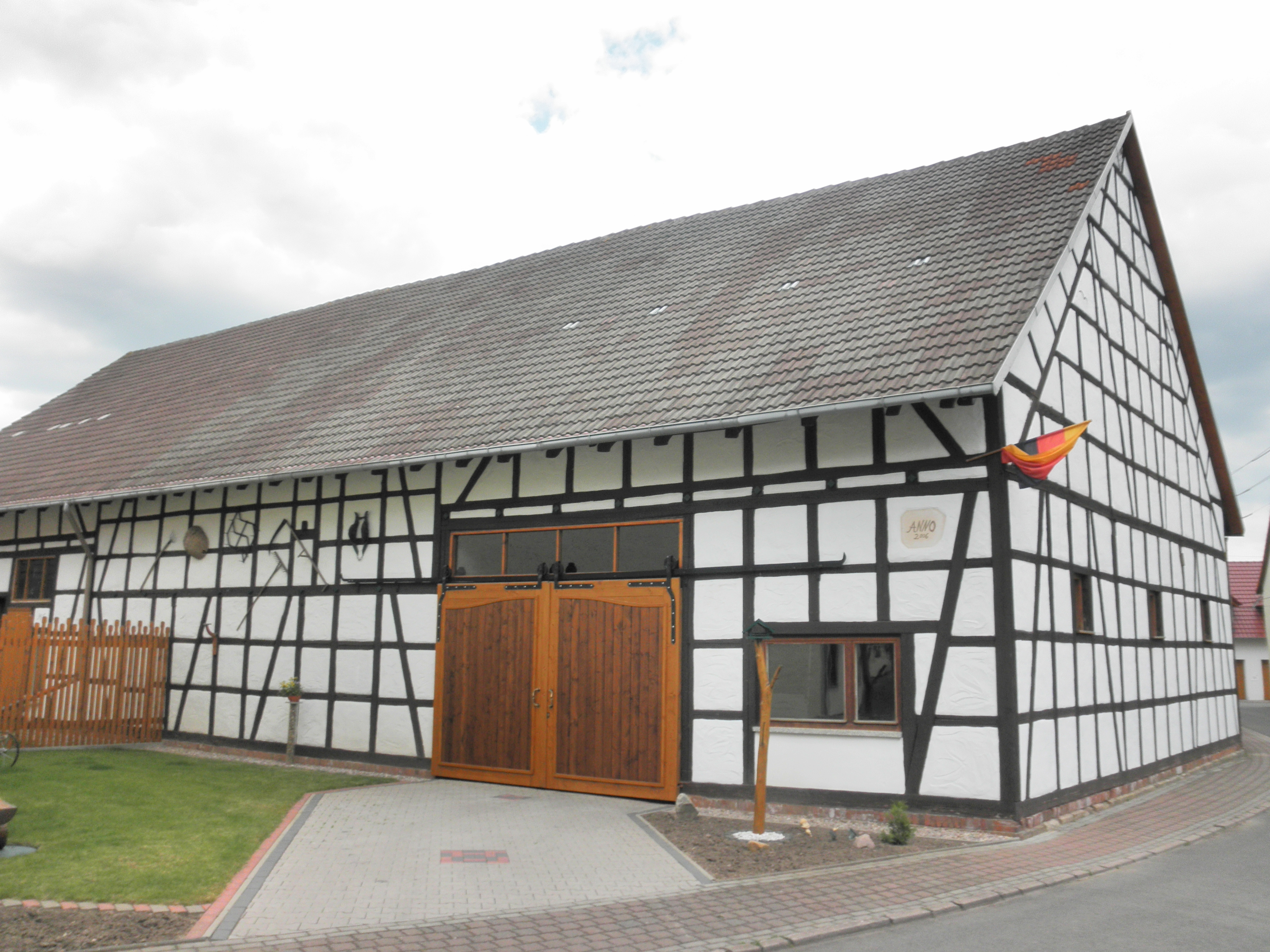 Half-Timbered House in Nottleben